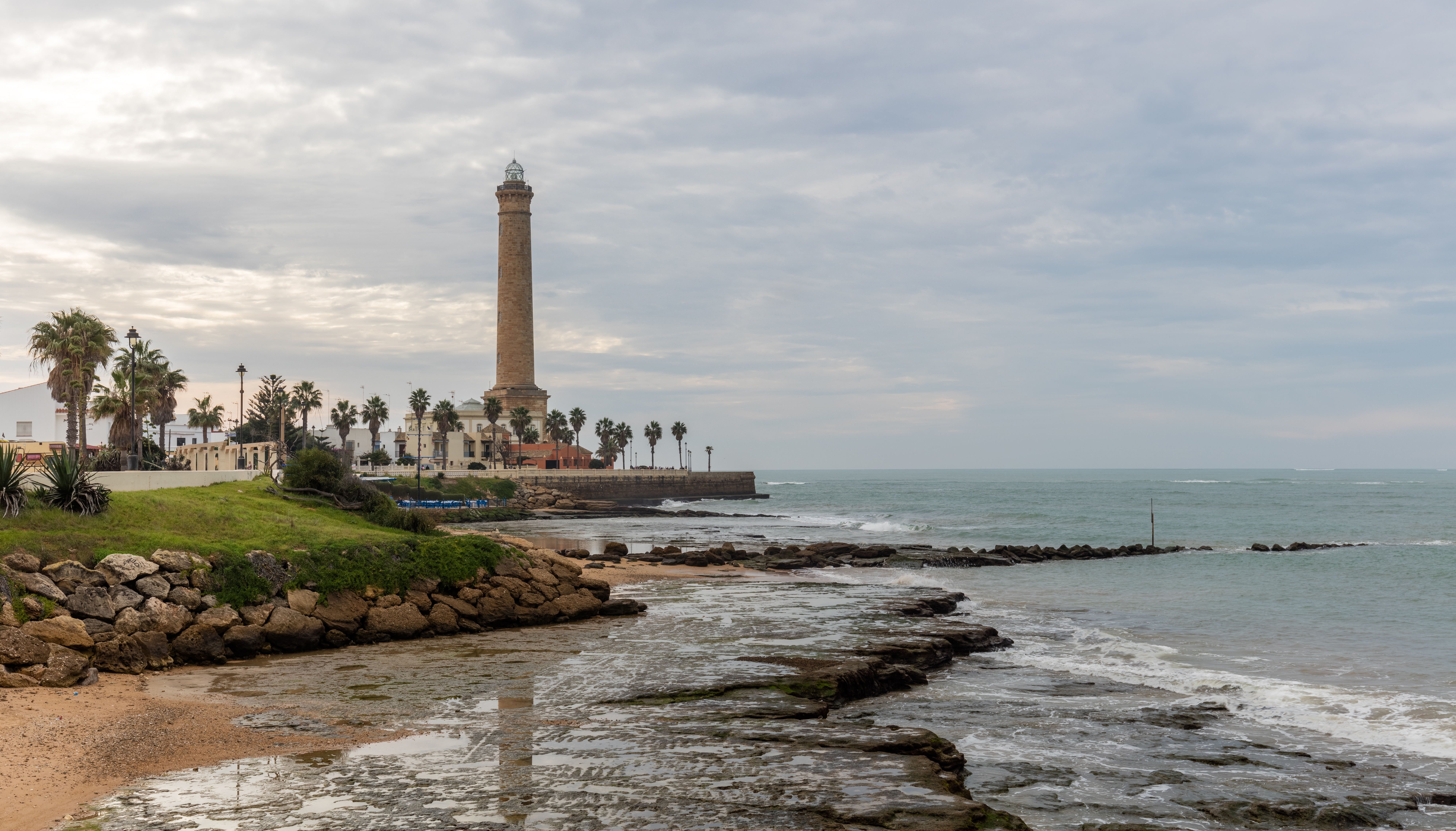 Chipiona Lighthouse, Spain